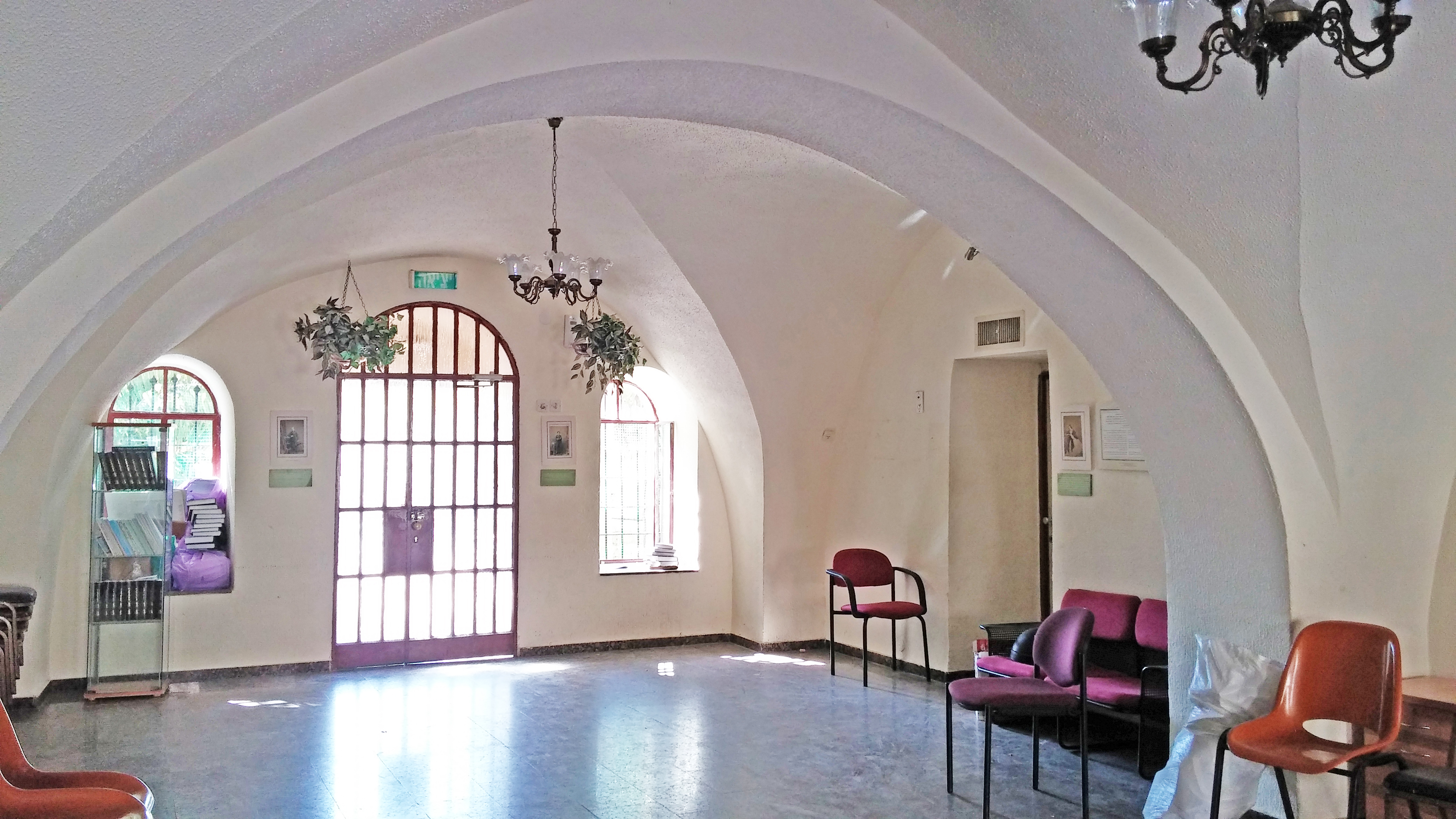 Kerem Avraham in Jerusalem